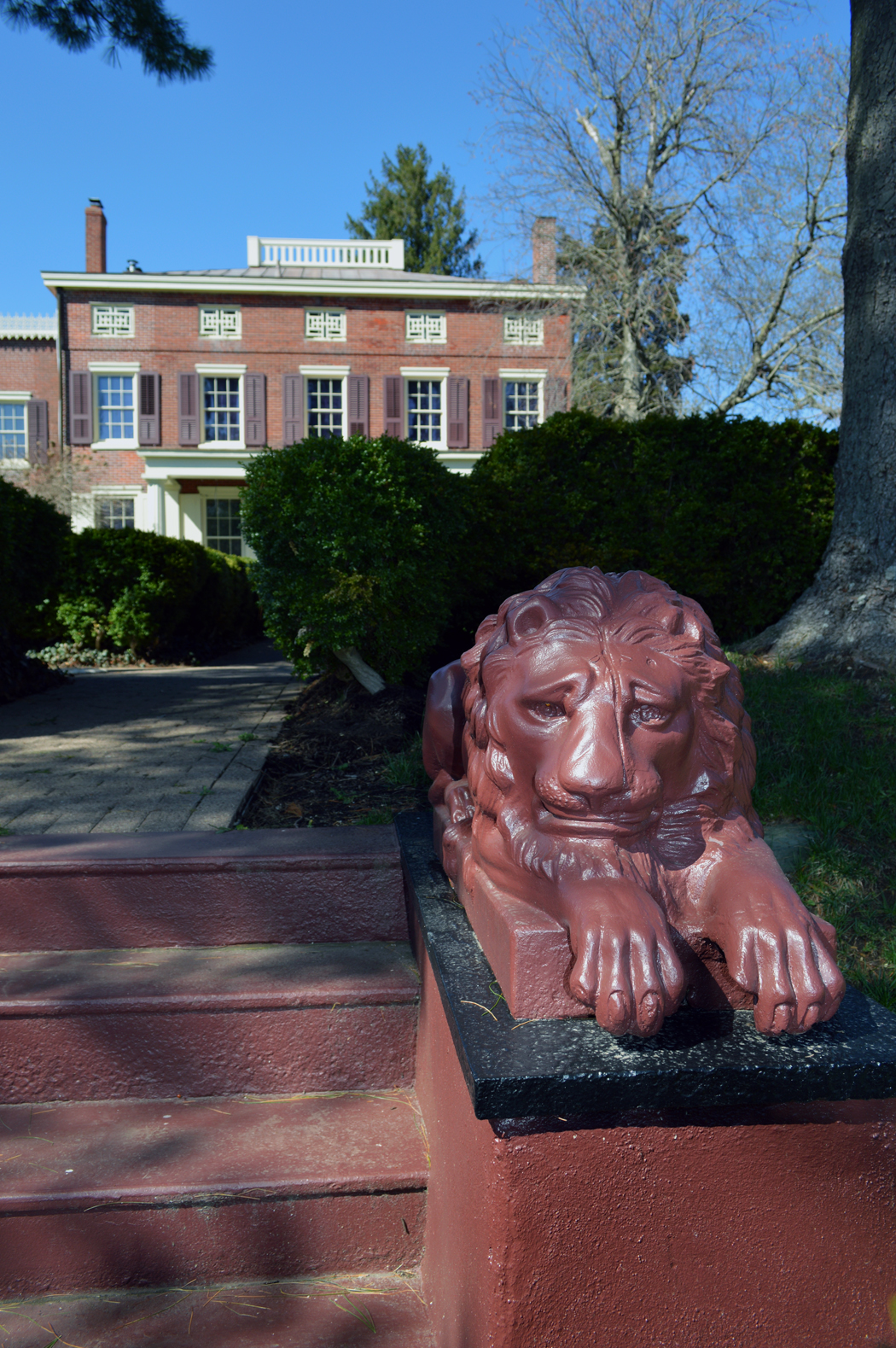 Smithville Historic District, Off of NJ 38 Smithville. In the courtyard behind the mansion there are steps guarded by two stone lions, one on each side.